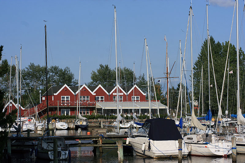 Vallensbæk recreational port